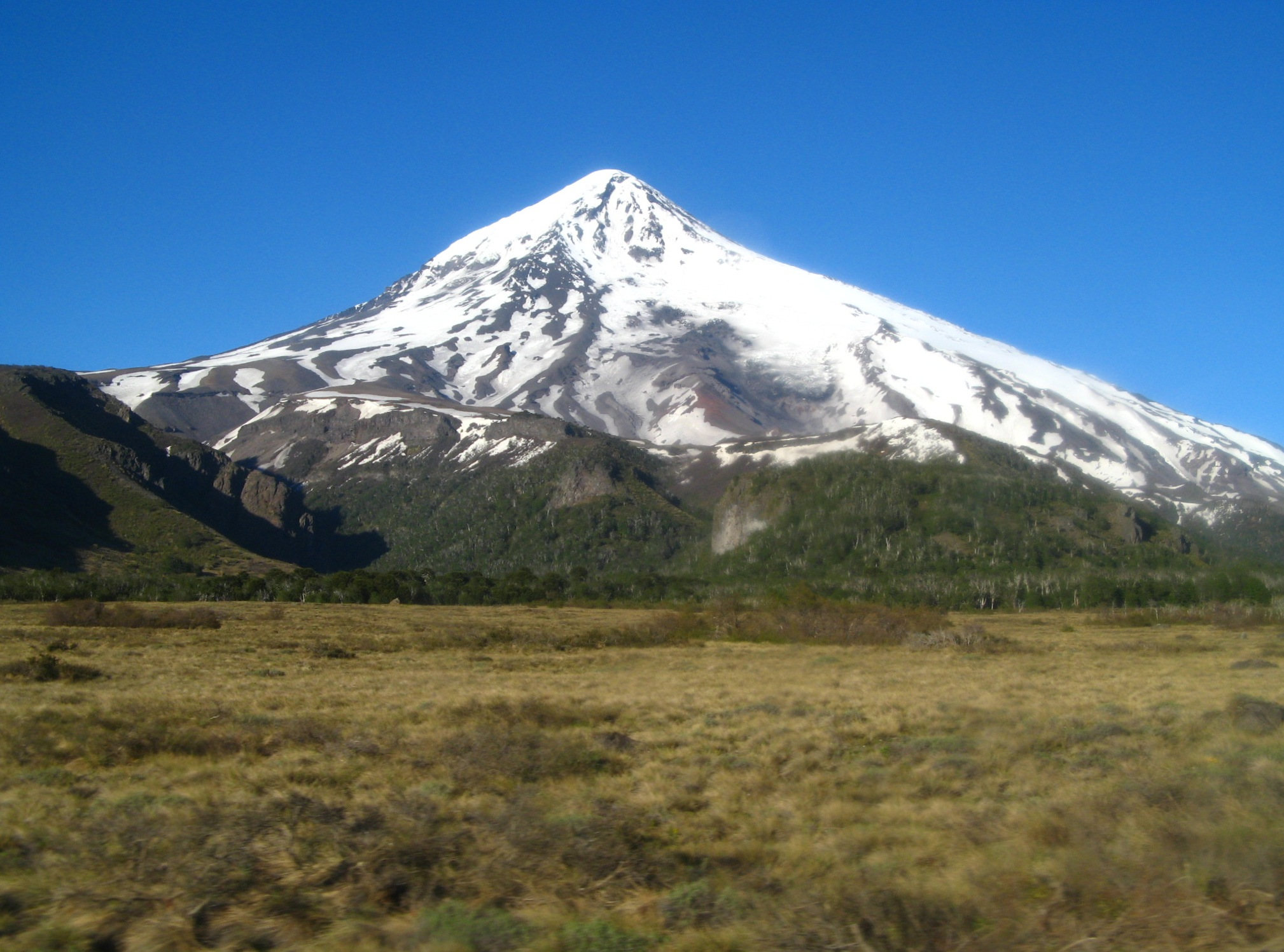 Lanín Volcano from Mamuil Malal Pass, close to the border between Chile and Argentina